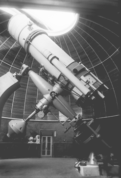 1 meter Zeiss telescope at Merate Astronomical Observatory, Merate (LC), Italy, pointing at North celestial pole.